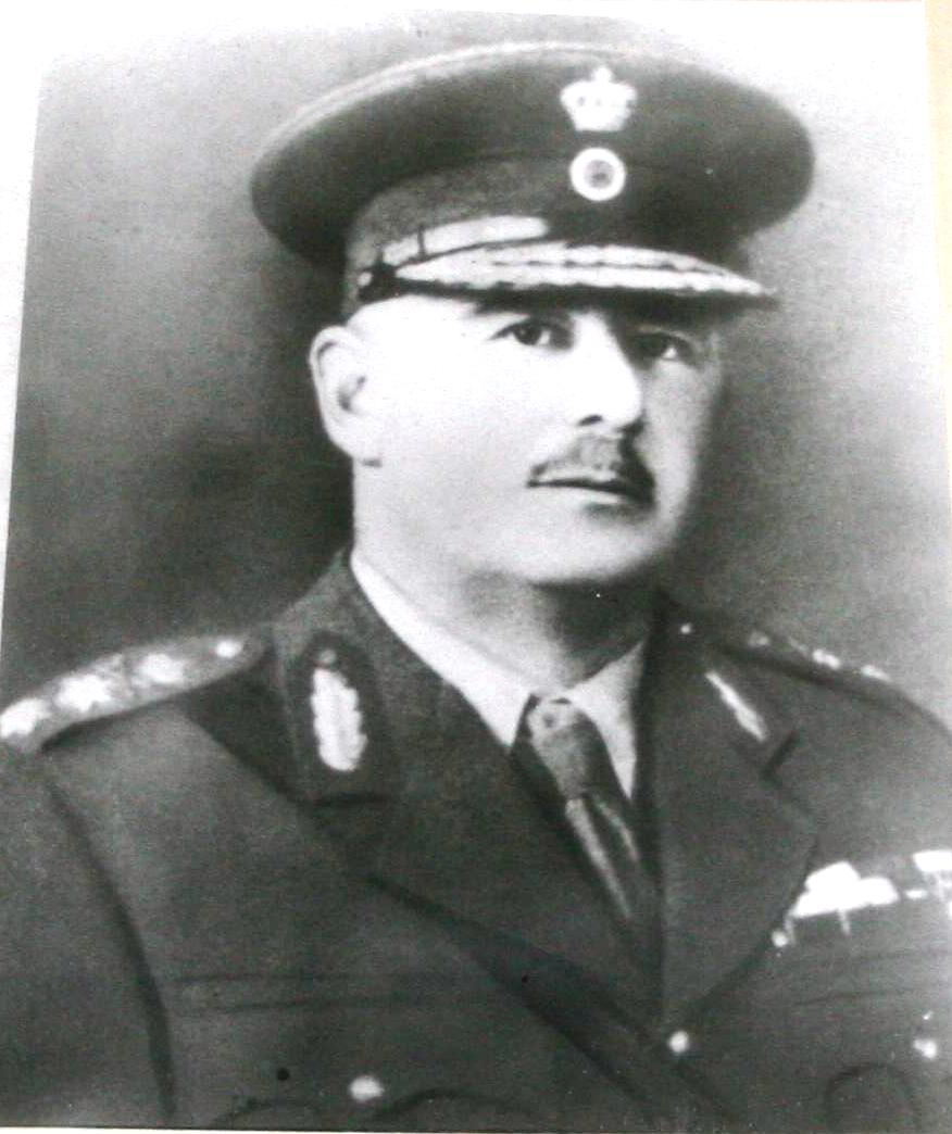 Greek general Markos Doukas